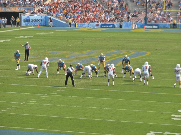 UCLA vs. Texas on September 17, 2011 in the Rose Bowl, Pasadena, California